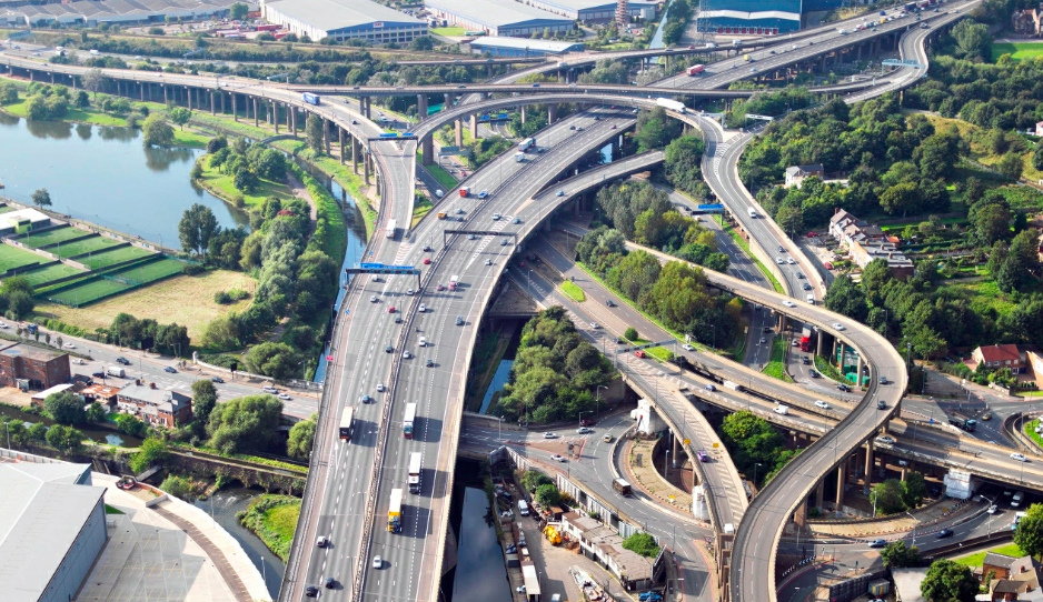 Aerial view of Gravelly Hill Interchange, Birmingham a.k.a. Spaghetti Junction, September 2008.